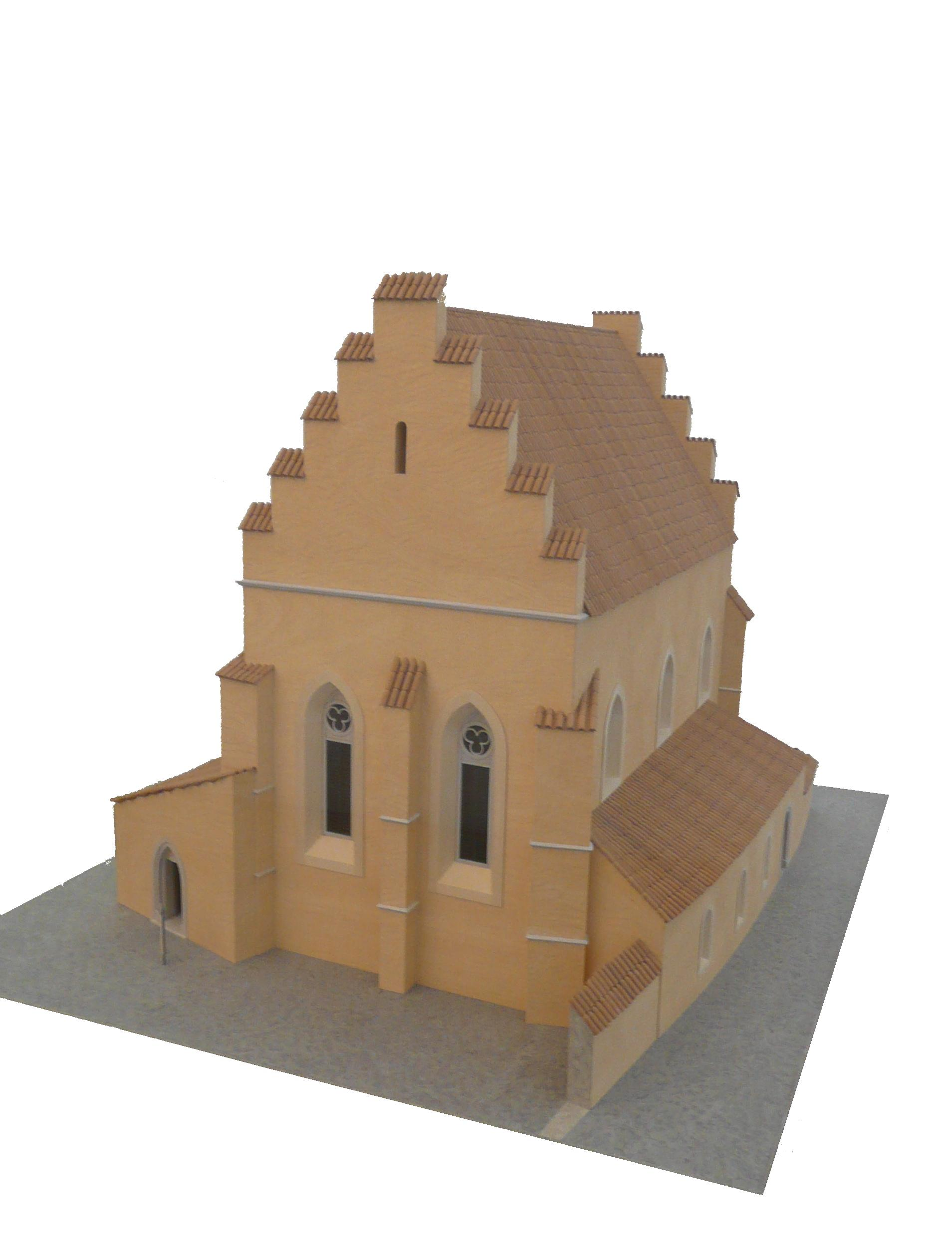 Model of the medieval synagogue at Judenplatz. around 1400. Model made out of various kinds of wood, scale 1:25. Design: Heidrun Helgerth, Franz Hnizdo. Realisation Atelier Franz Hnizdo.